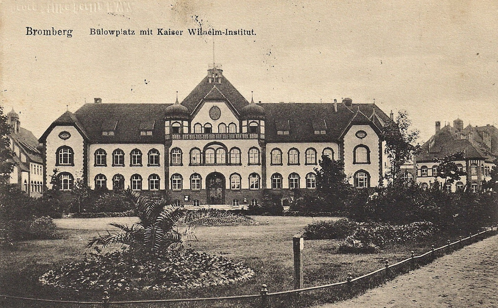 1911, Plac Weyssenhoffa Bromberg